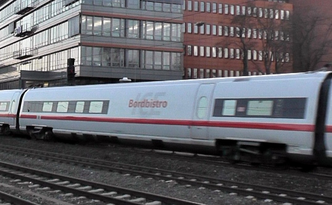 Back side of the restaurant coach of an ICE-T5 in Erlangen, Germany.